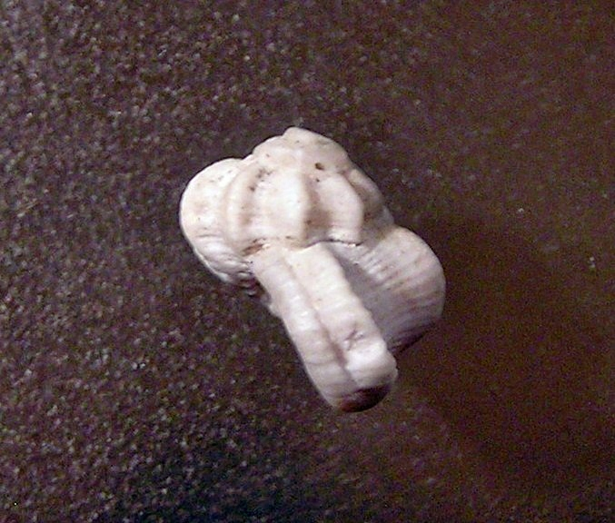 Liotina scalaroides Reeve, 1834; a sea snail in the family Liotiidae; Philippines